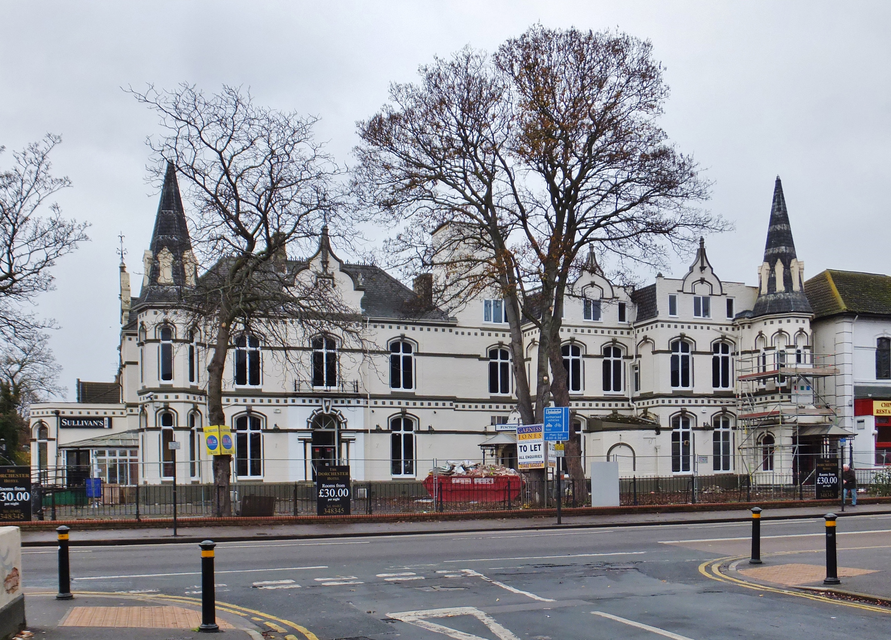 Beverley Road, Kingston upon Hull